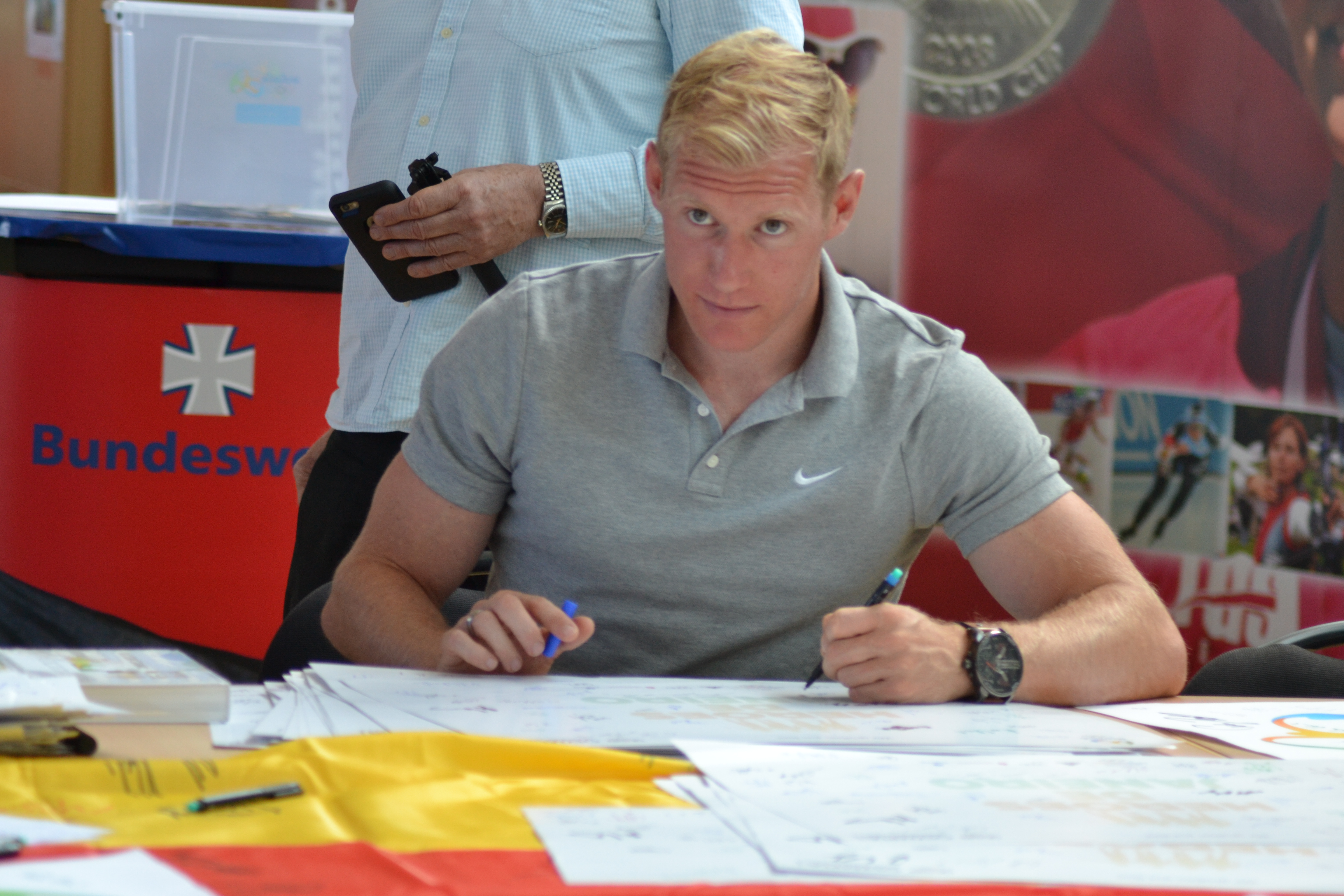 Media day of the clothing of the German Olympic team for Rio 2016 in the Emmich-Cambrai-Kaserne in Hanover. Pictured persons see Categories.